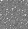 Rule 30 from random initial conditions